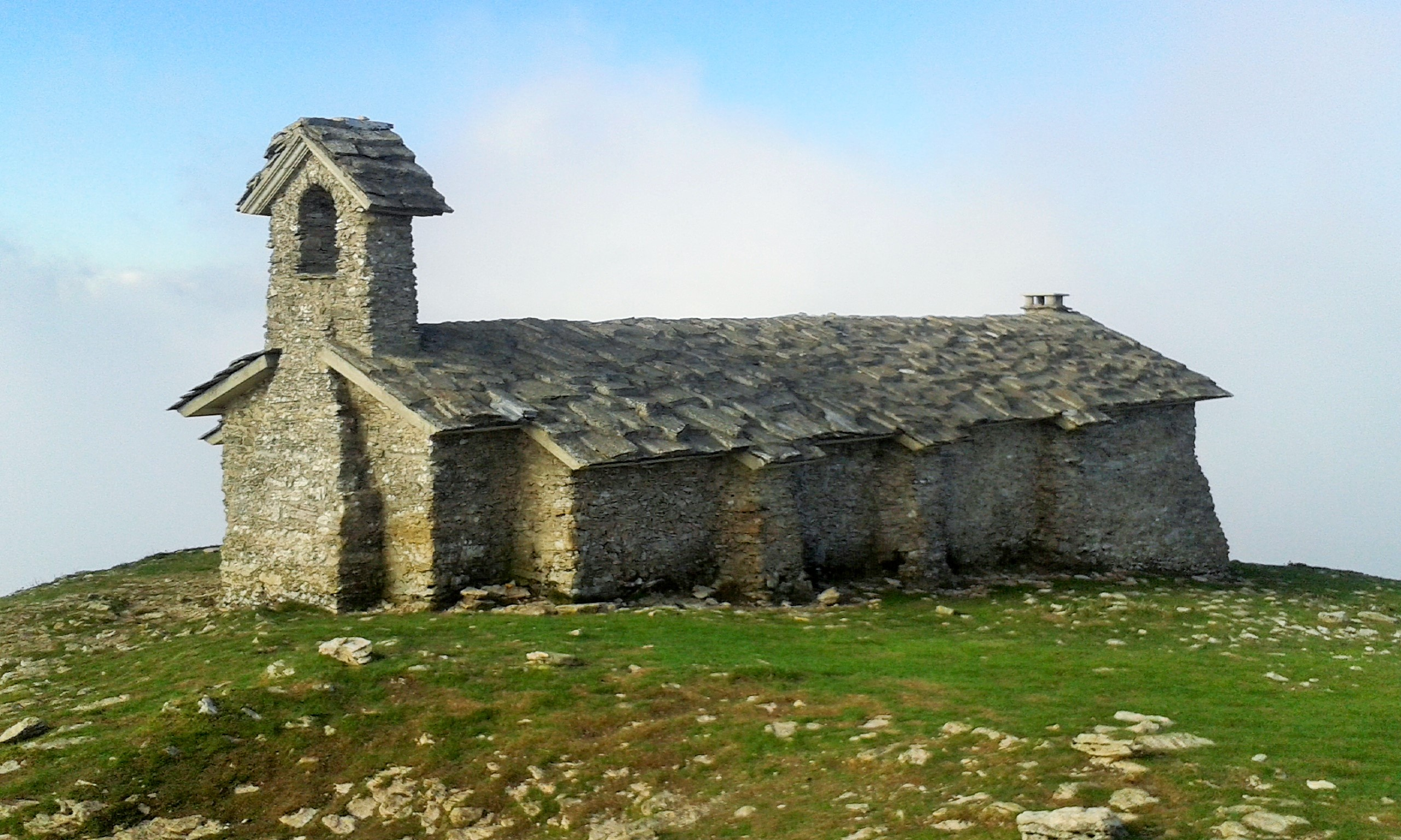 San Donato chapel on the summit Beriain, Basque Country